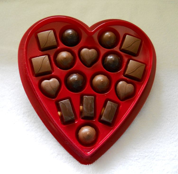 Elmer's Valentine boxed chocolates